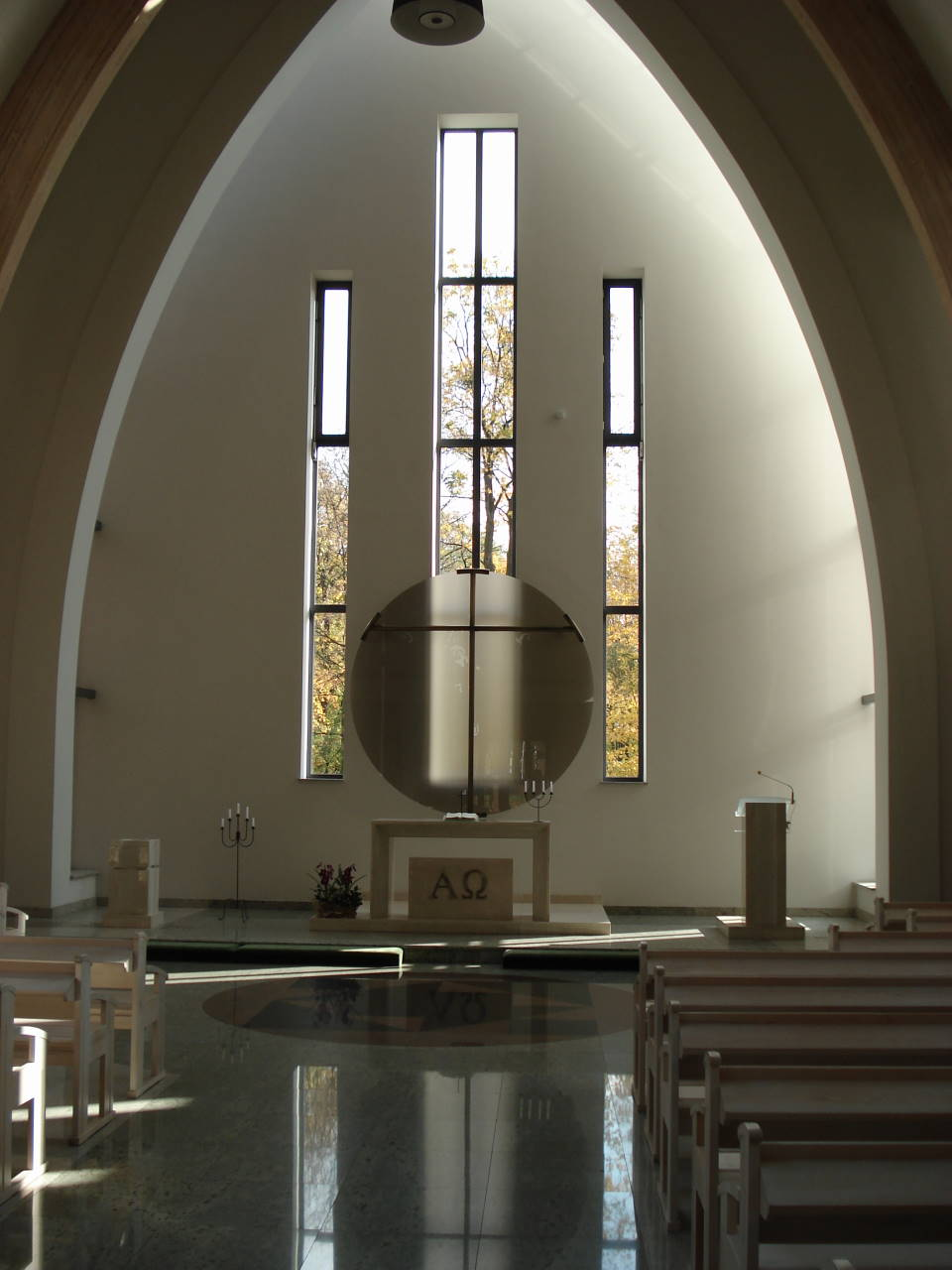 Interior of the Evangelical Augsburg Church of God's Grace in Poznań, 2004